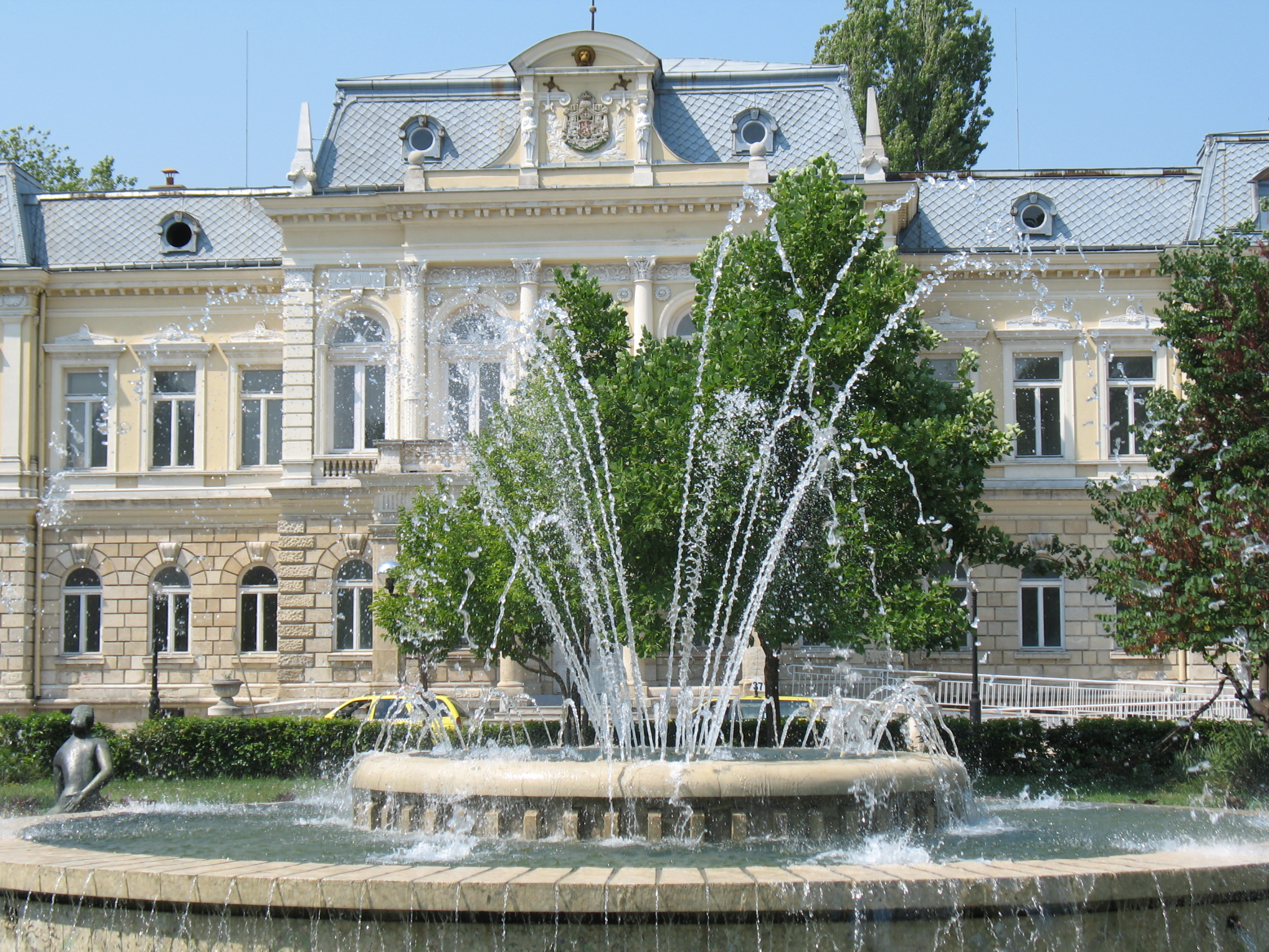 Front view of the Rousse Regional Historical Museum. author: Rossen Radev camera: Cannon A620 location: Rousse, Bulgaria description: Дворец на Батенберг